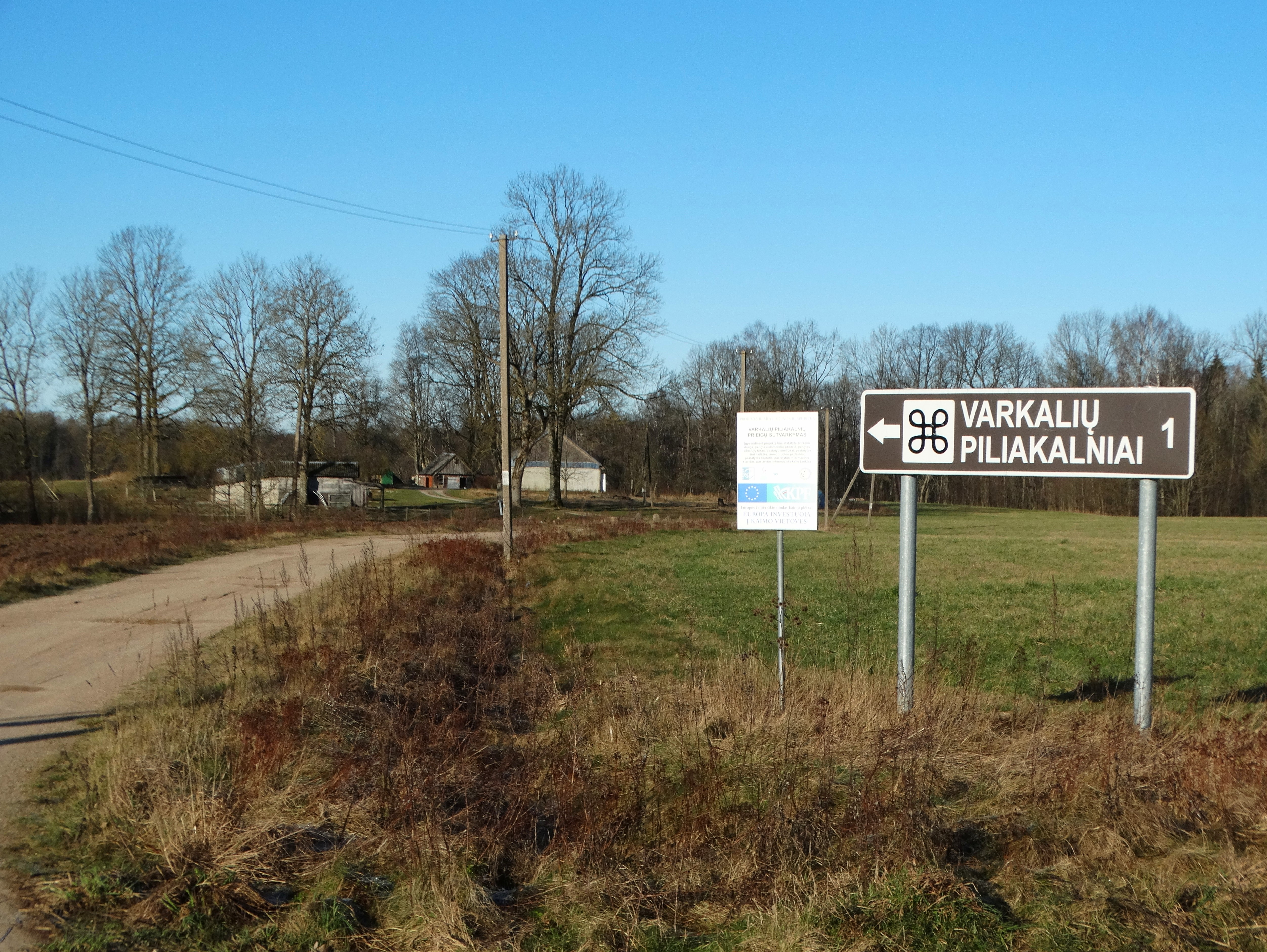 Sign of Varkaliai Hillforts, Plungė district, Lithuania